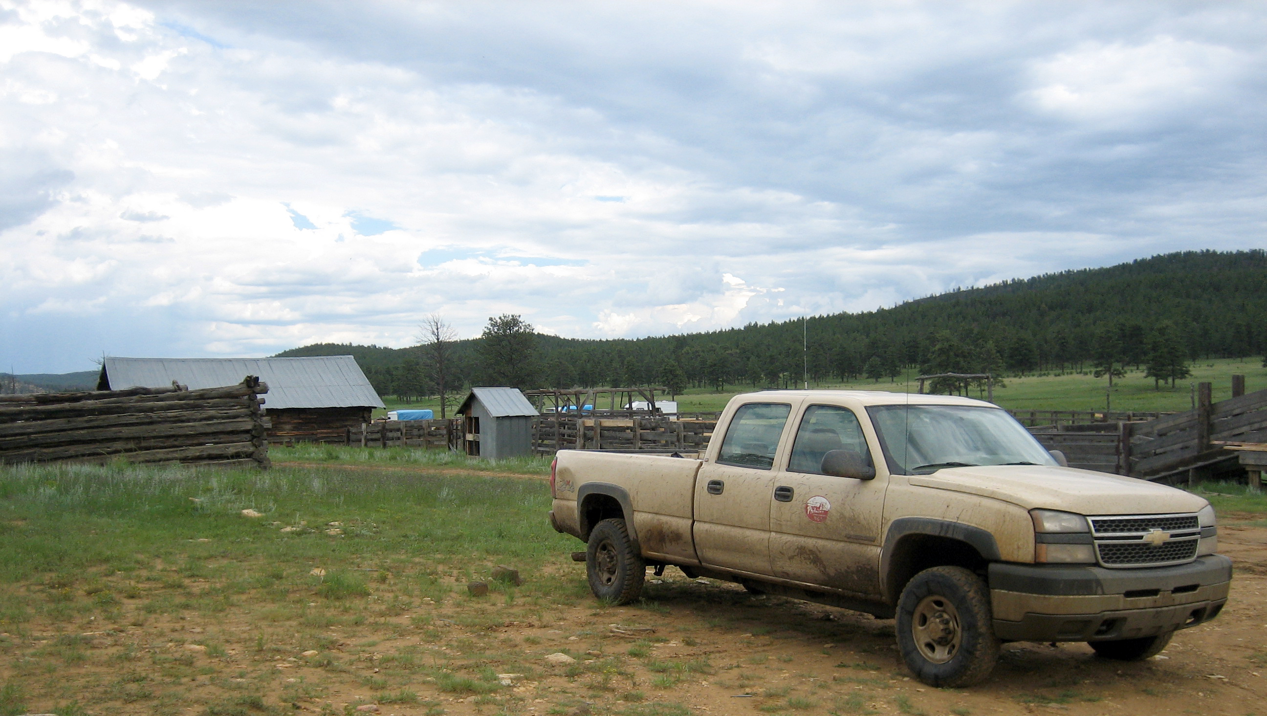 The Philtruck of Gene Schnell (Unit 41) at Ring Place Camp in the Valle Vidal, just north of Philmont Scout Ranch.